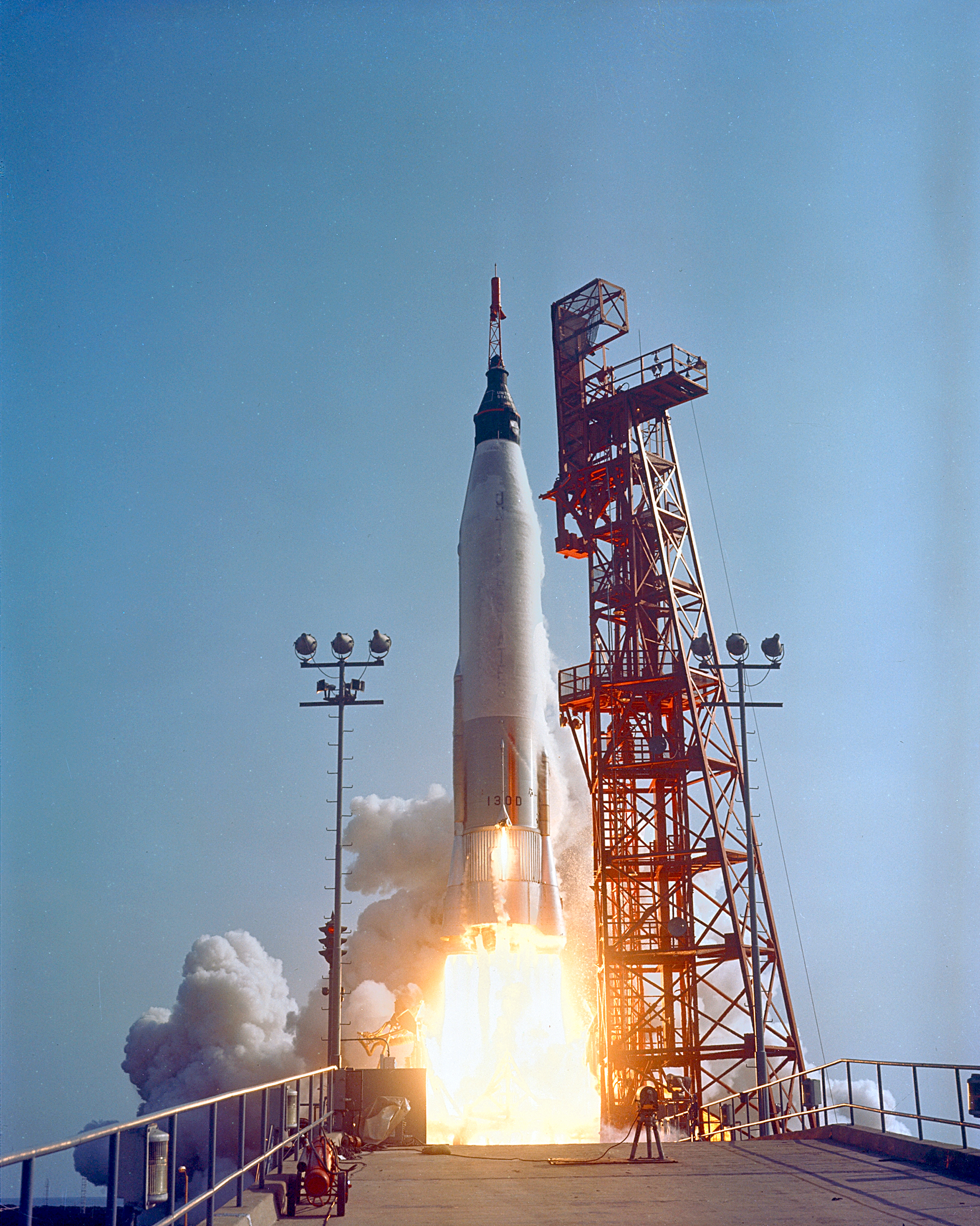 Mercury-Atlas 9 lifts off from Pad 14 at Cape Canaveral with astronaut L. Gordon Cooper aboard Faith 7 for the nation's longest manned orbital flight. Lift-off occurred at 8:04 a.m. EST, on May 15, 1963. And 34 hours, 20 minutes, 30 seconds, and 22 orbits later, Gordon Cooper was resting in his Faith 7 space capsule in the blue Pacific Ocean.